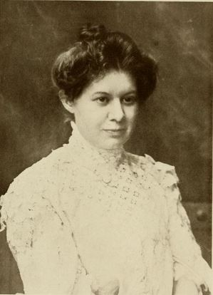 Berenice Wyer, Kajiwara Photo, Johnson, Anne (André) "Mrs. Charles P. Johnson", 1871-. Notable women of St. Louis, 1914; (Kindle Location 4402). [St. Louis, Woodward.]